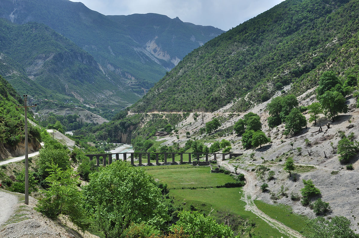 The aqueduct built by Ali Pasha spanning Benca river close to the town of Tepelena.